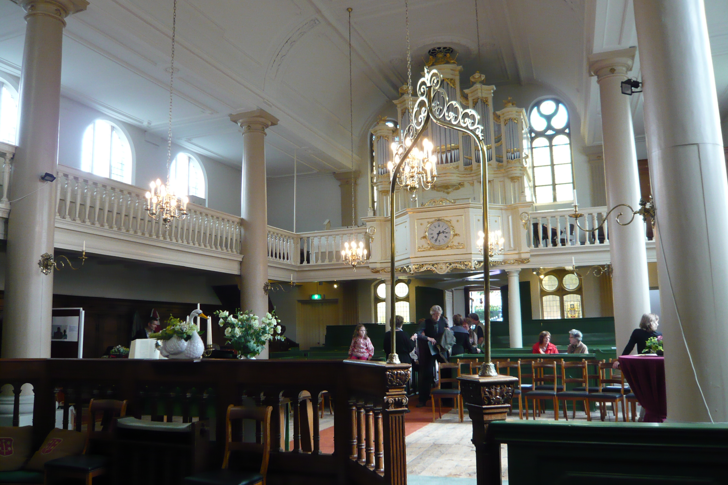 View of organ in Lutheran church of Haarlem - note the swan, symbol of the Lutheran faith.